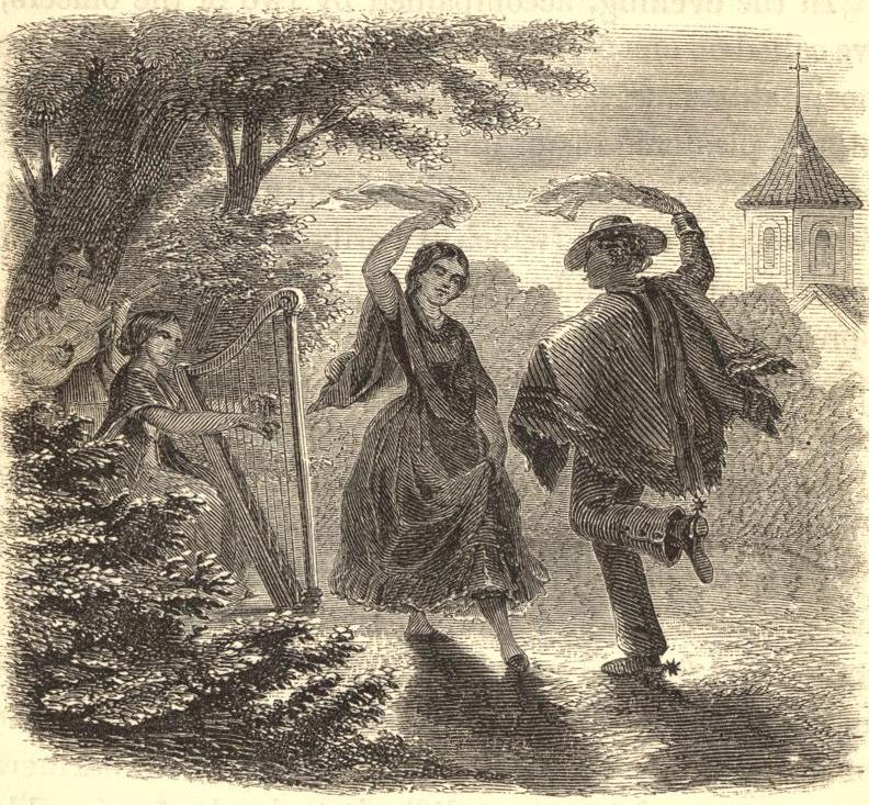 Cueca is a typical dance from Chile, Bolivia and Argentina